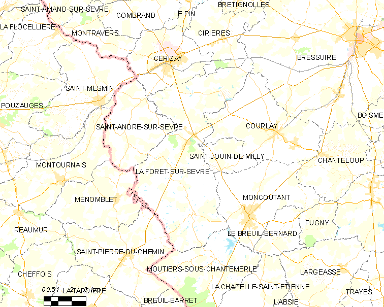 Map of French municipality La Forêt-sur-Sèvre